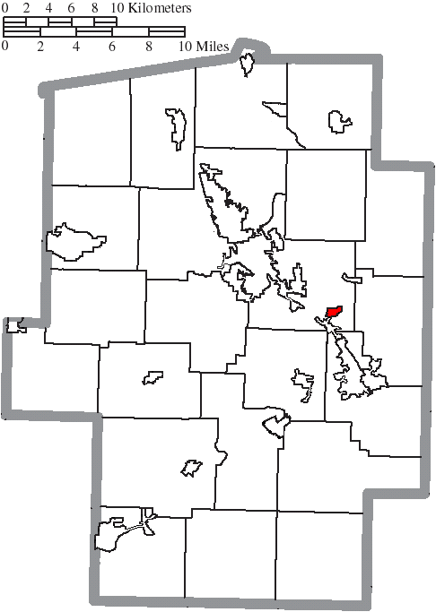 Map of the municipal and township boundaries of Tuscarawas County, Ohio, United States, as of the 2000 census, with the location of the village of Barnhill highlighted. Township borders are shown only in unincorporated areas in order to differentiate incorporated and unincorporated areas more clearly.